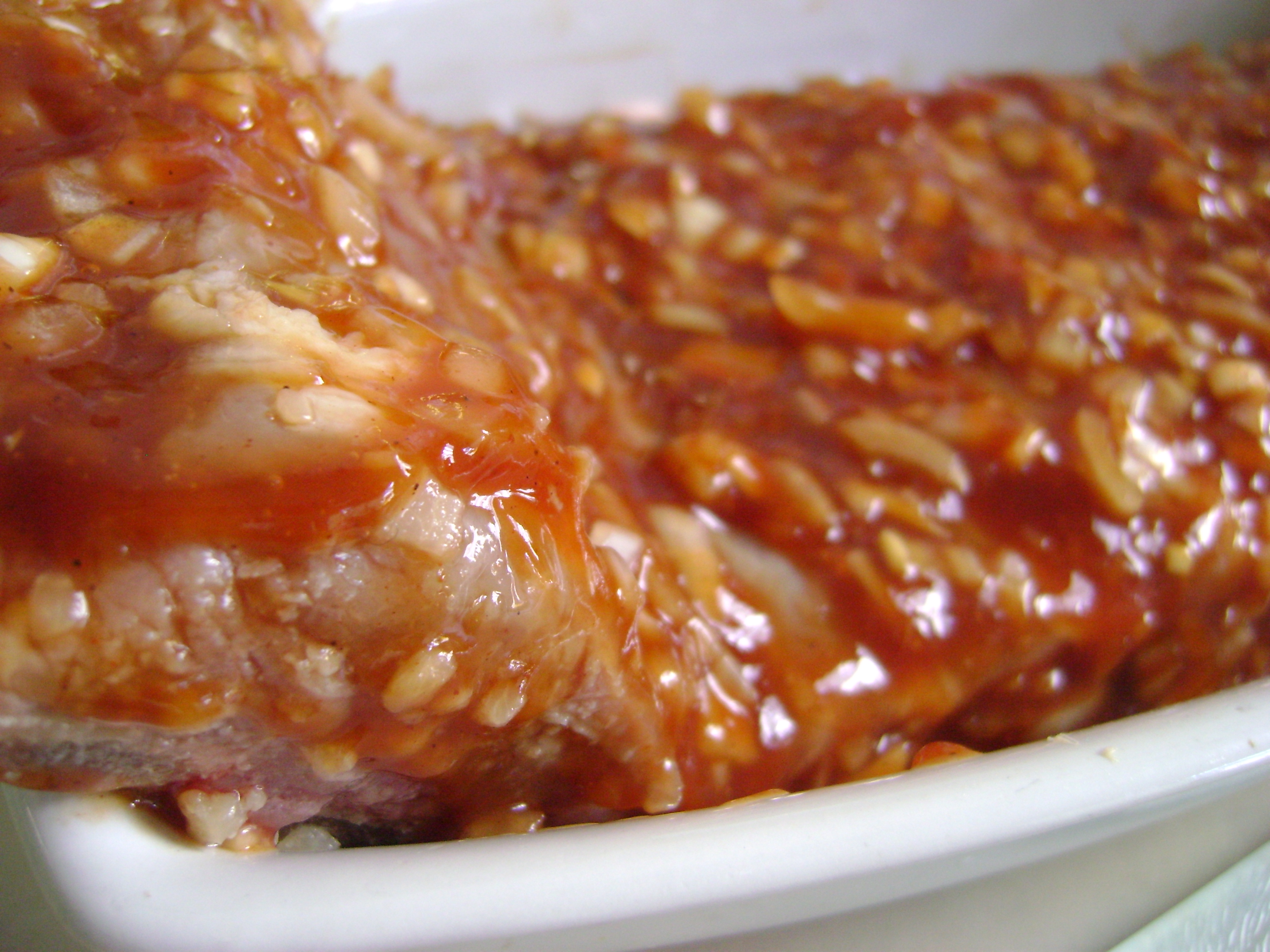 Pork rib with barbecue